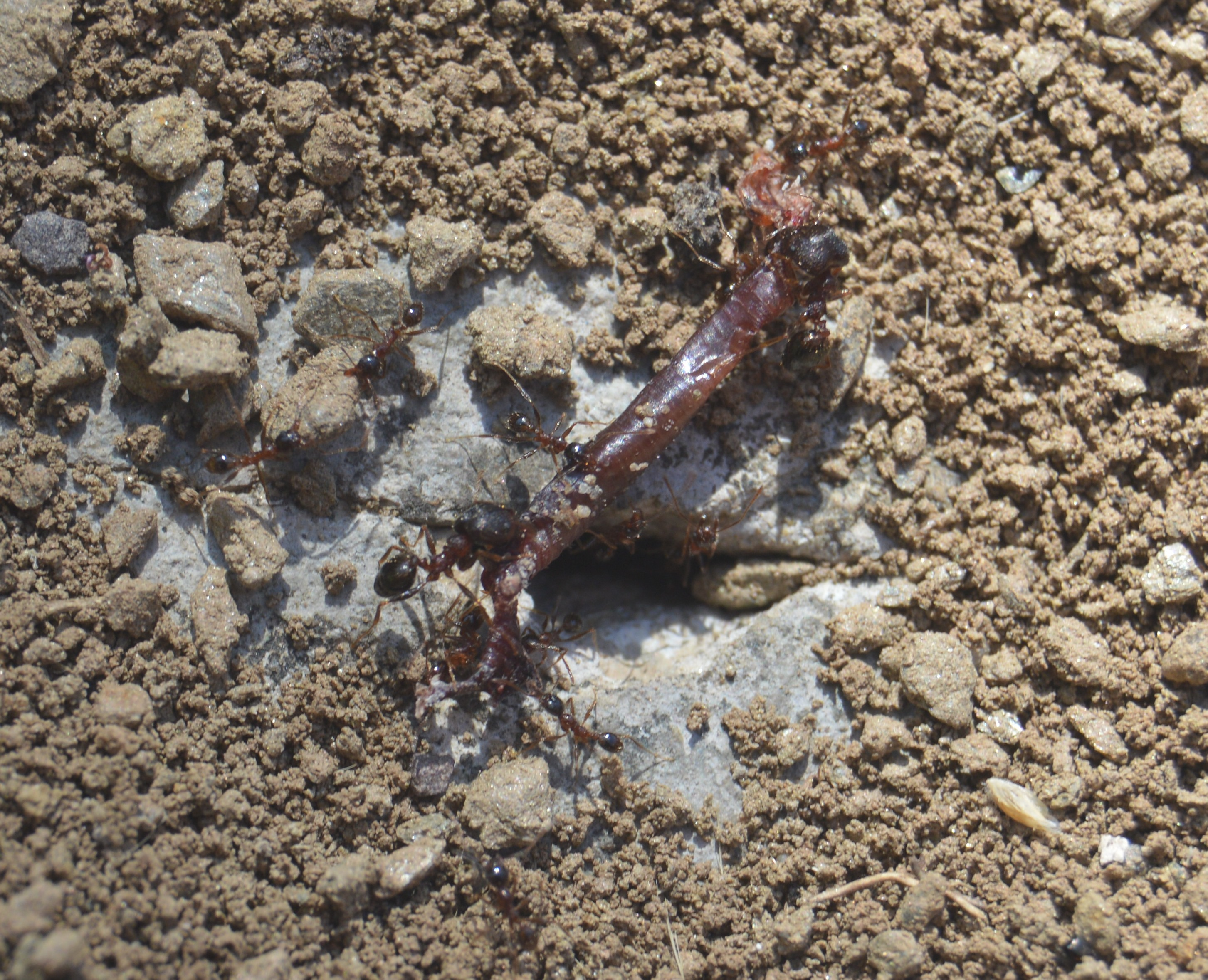 Ants helping each other